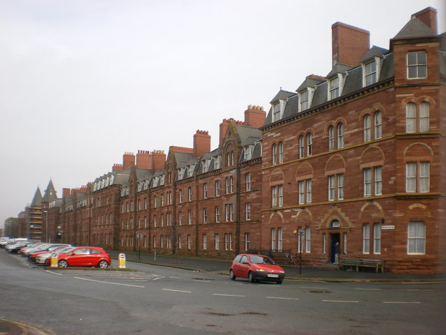 Michaelson Road, Barrow-in-Furness